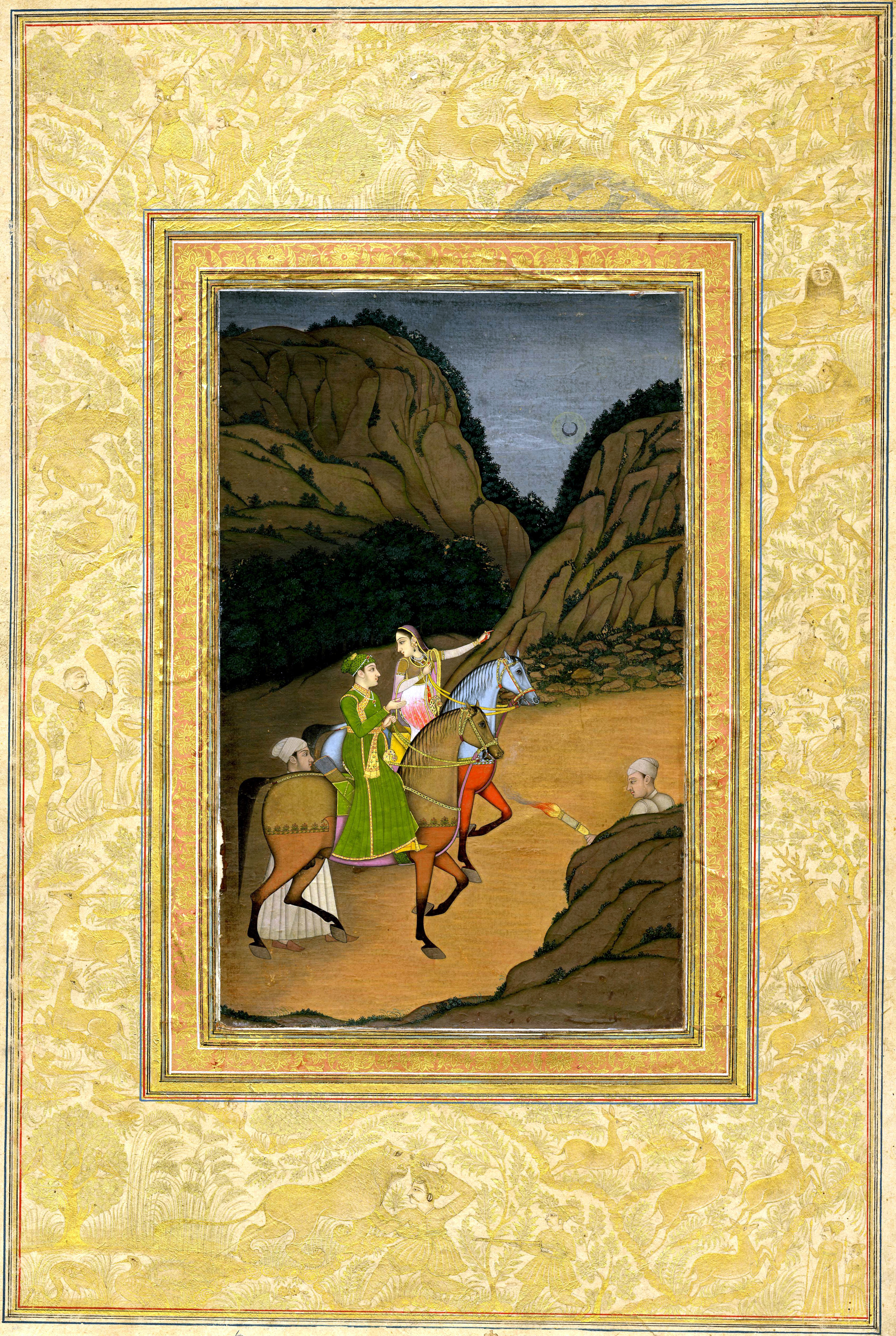 Album leaf, removed from album. Portrait. Báz Bahádur and Rúpmatí on horses with attendants.